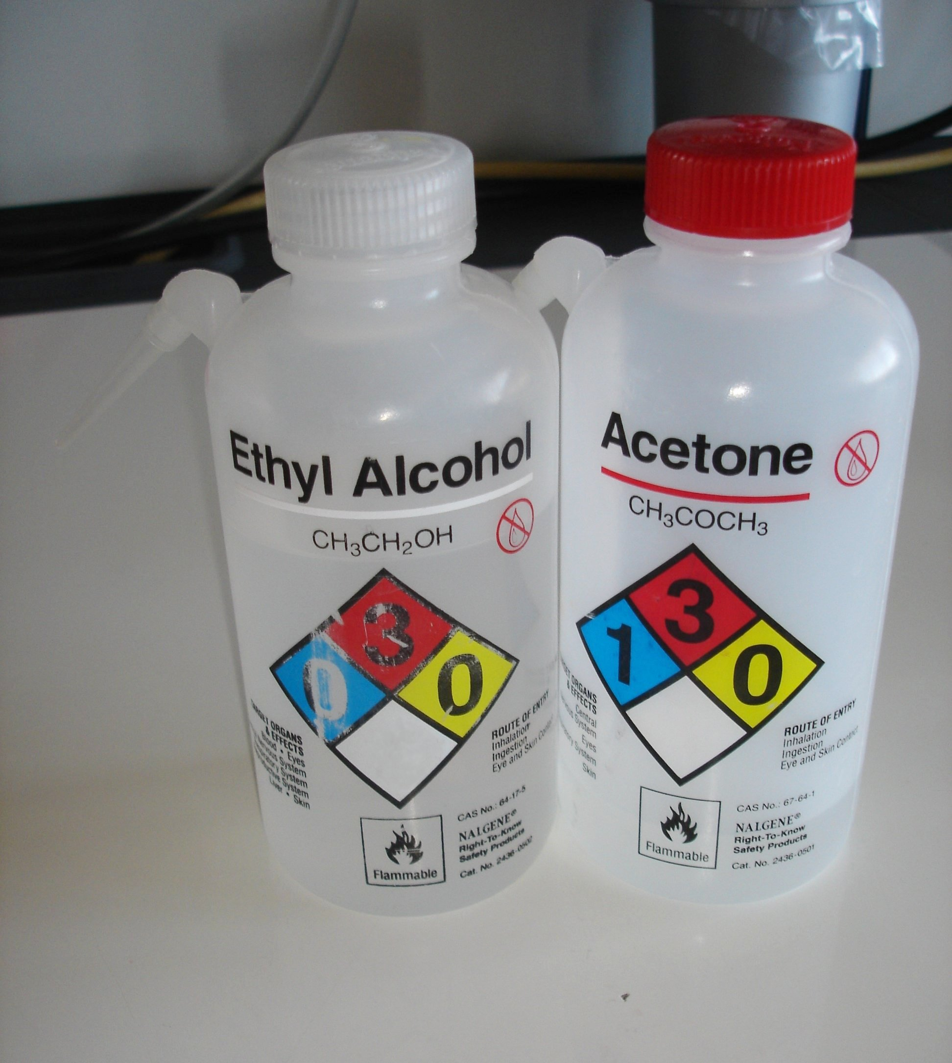 Nalgene bottles showing the NFPA 704 color code.